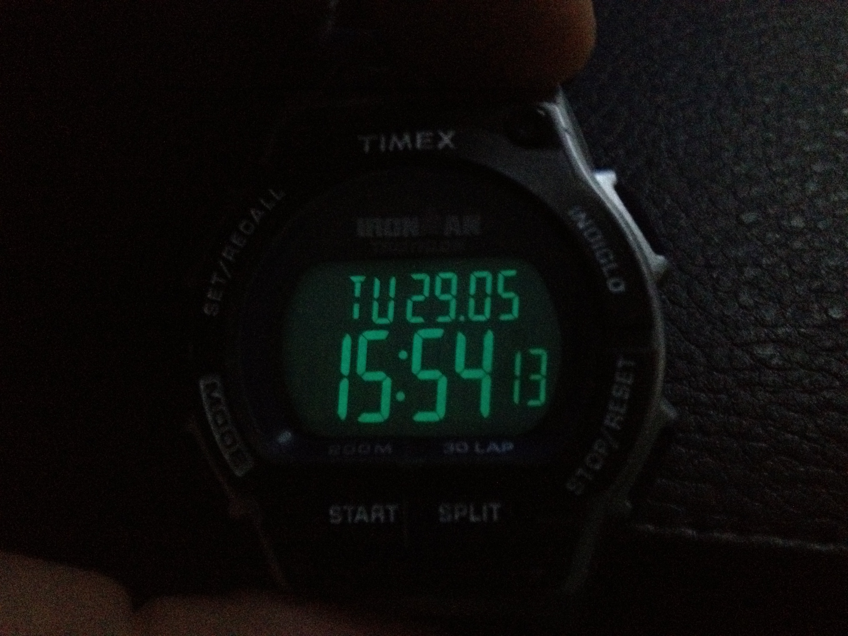 This is an image which shows the Indiglo backlight feature on the Timex Ironman watch.